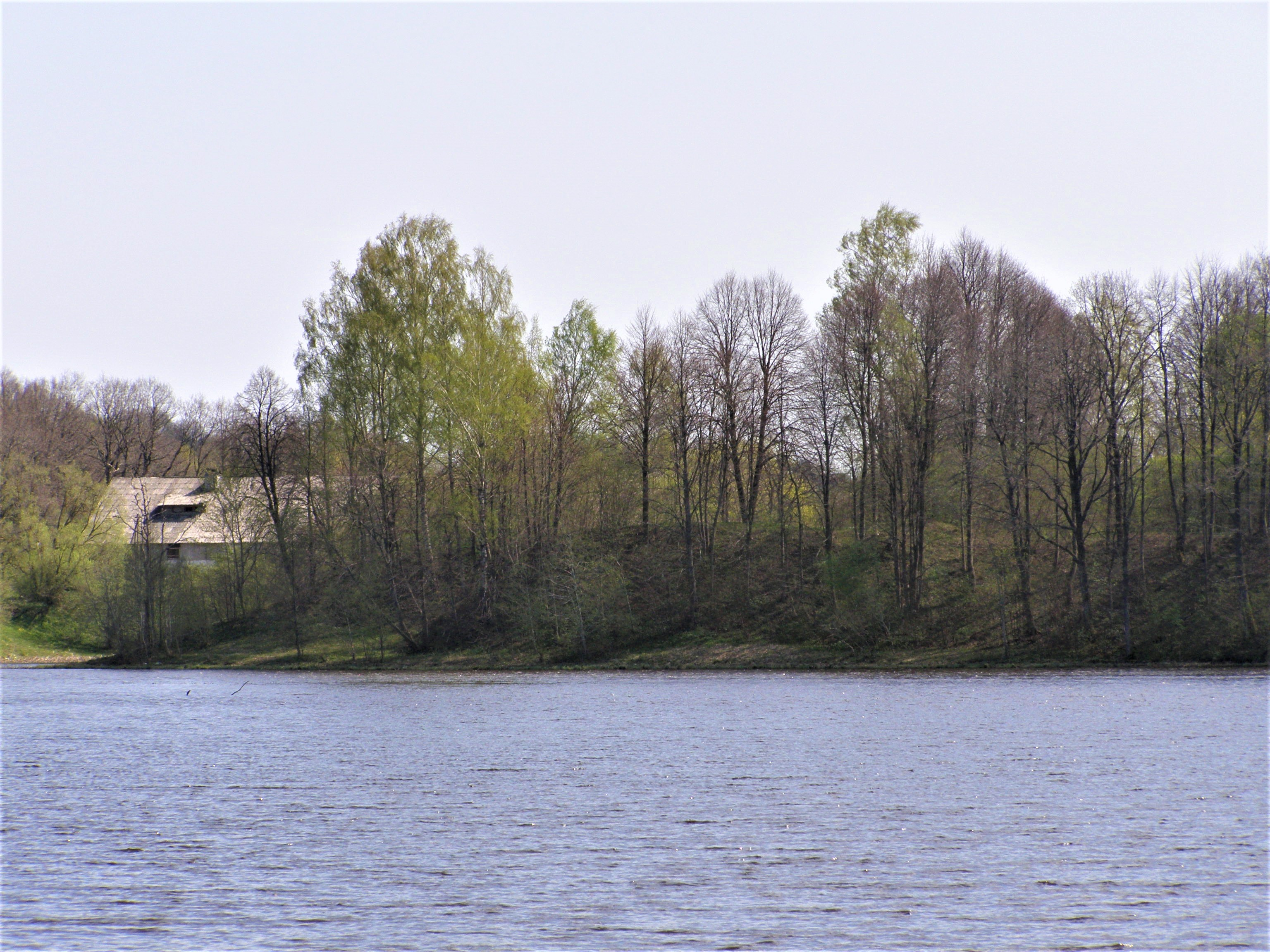 Kurmaičiai Hillfort, Kretinga district, Lithuania